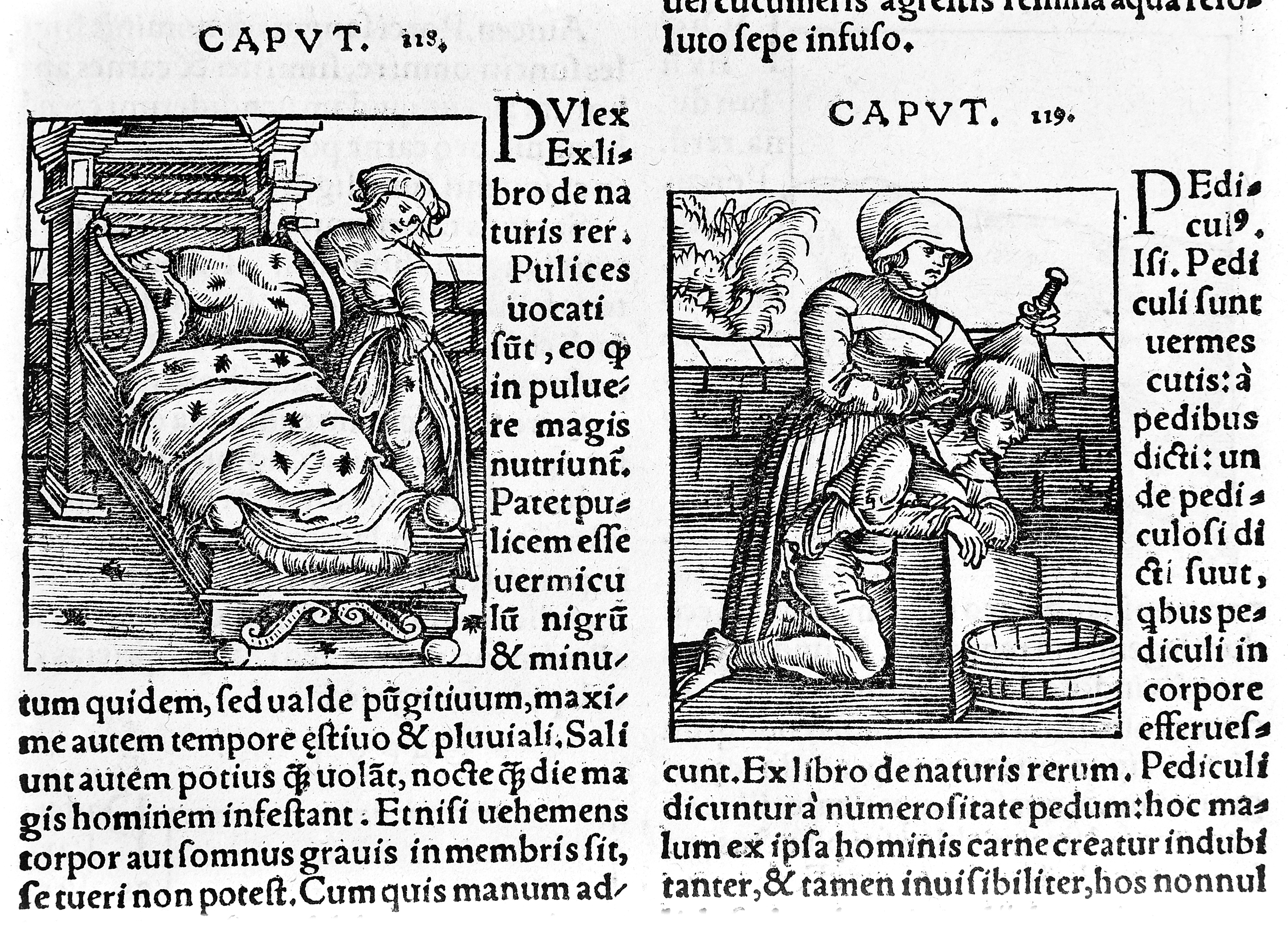 Hortus Sanitatis: a) fleas (?) bugs; b) delousing. Rare Books Keywords: Hygiene